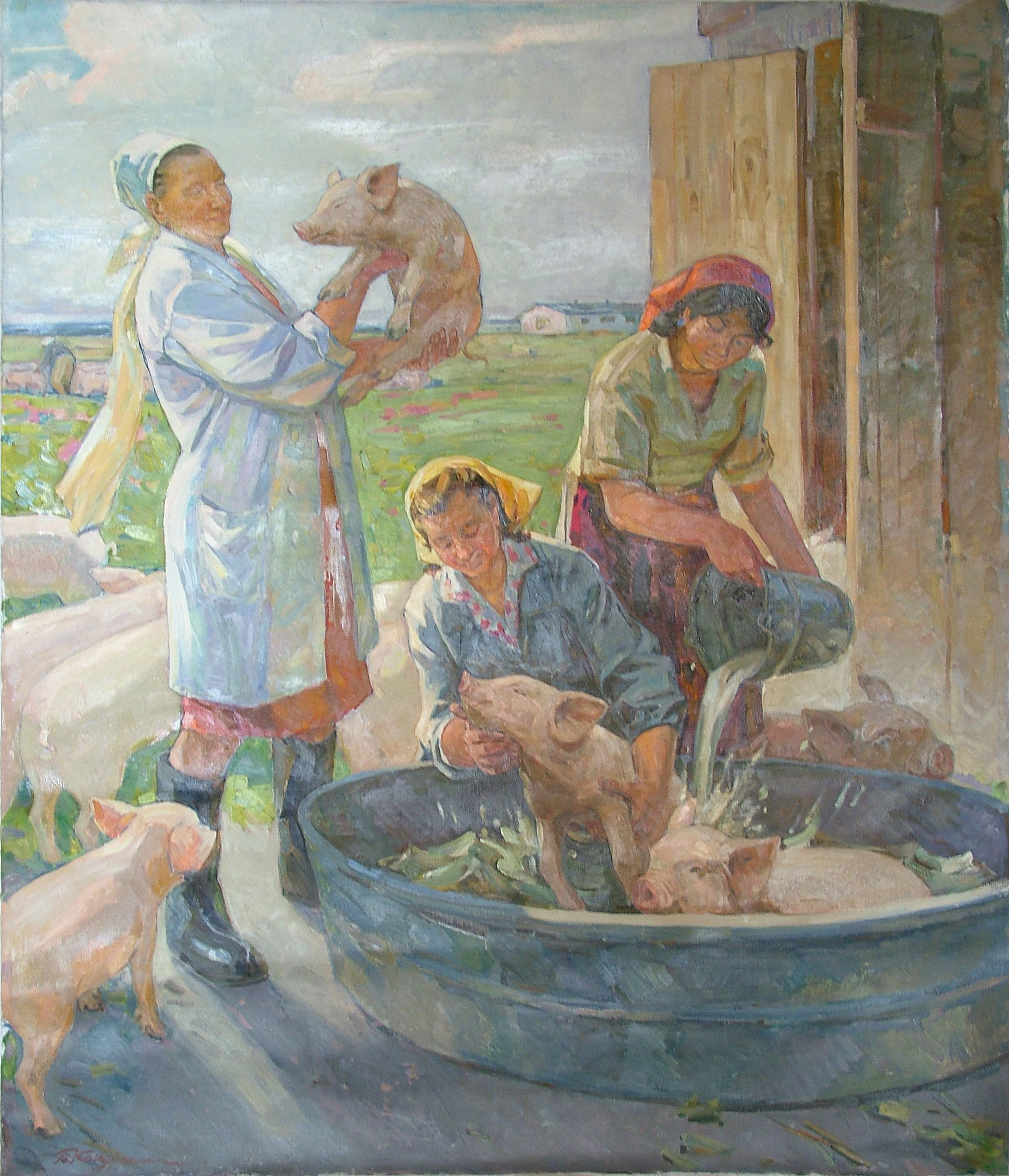 genre painting